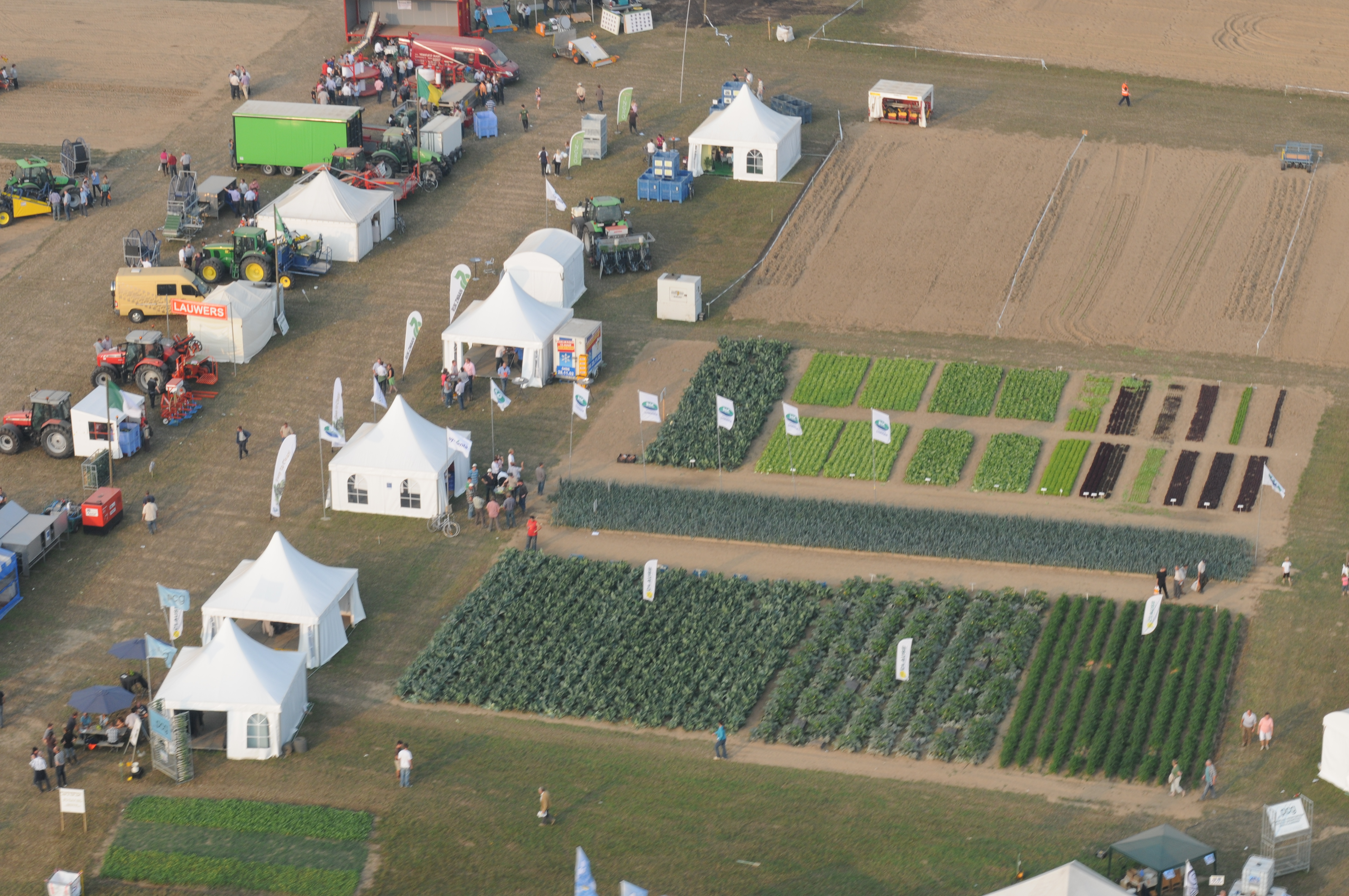 Syngenta area at Werktuigendagen 2009